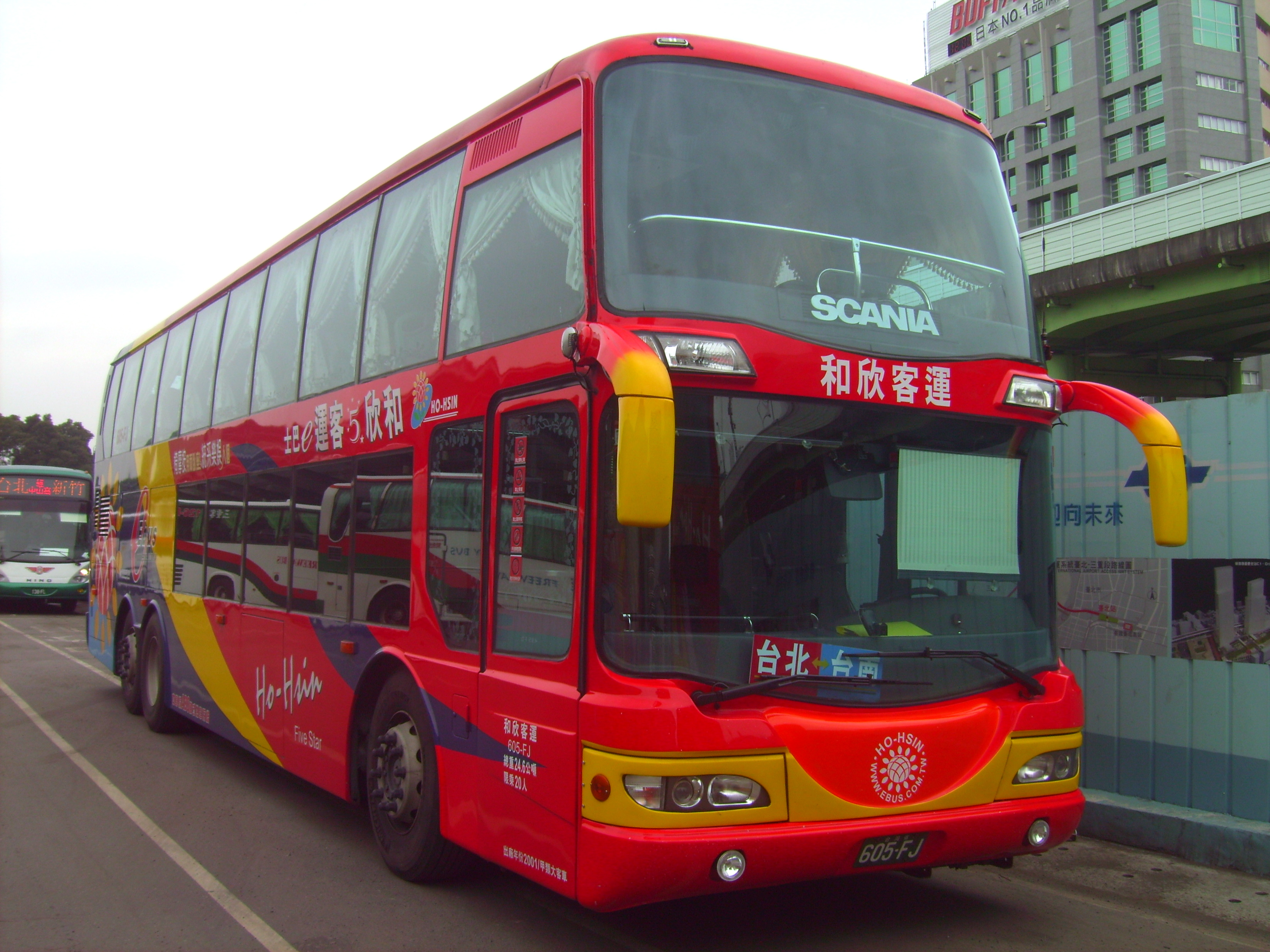 Ho-hsin Bus Co., Ltd. purchased SCANIA K Series buses from 2003, in this picture is K114IB4X2NB.